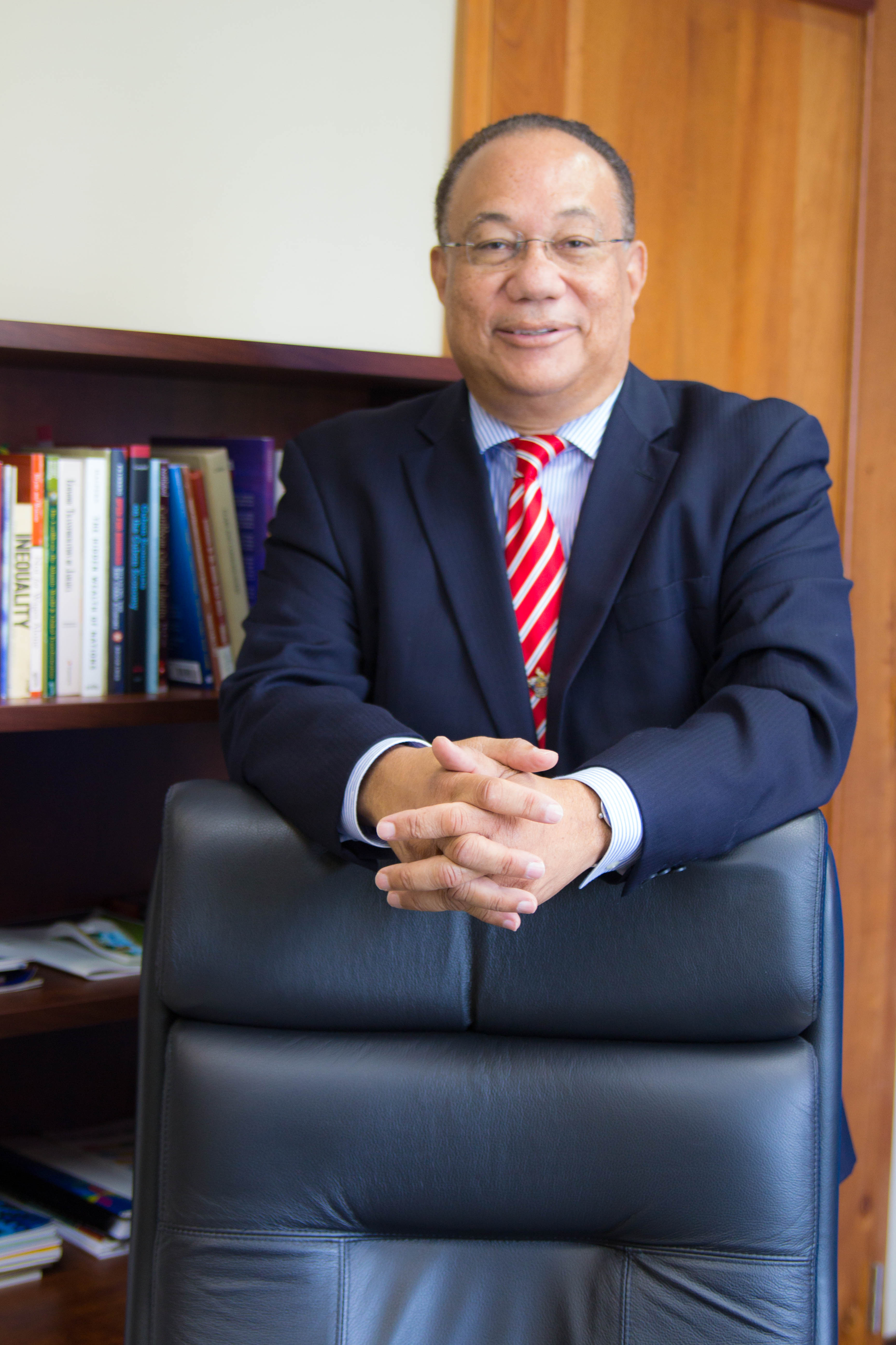 Photo of Ambassador Dr. Richard Bernal